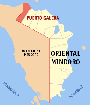 Map showing the location of Puerto Galera — in Oriental Mindoro Province on eastern Mindoro island.